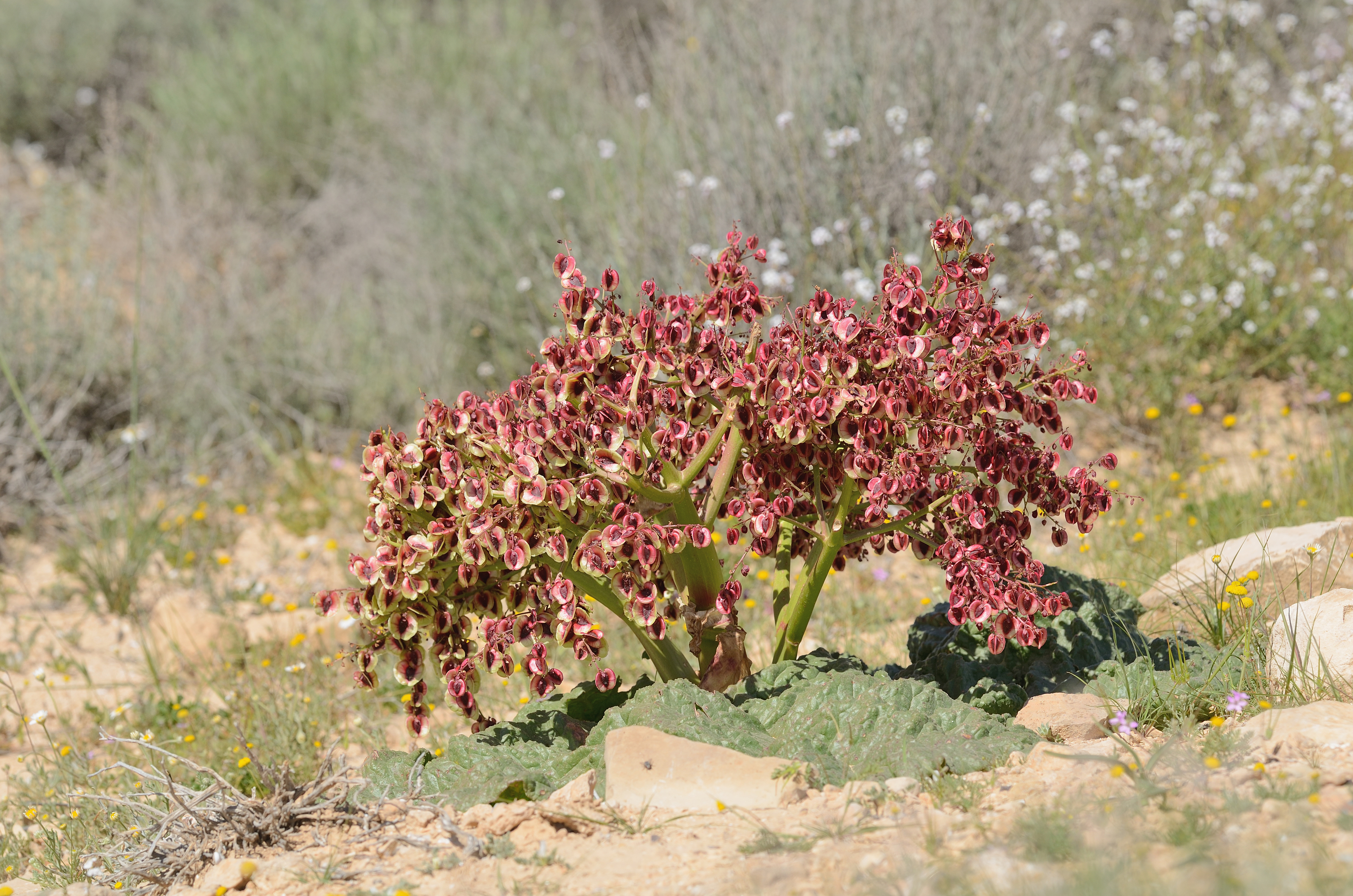 Rheum palaestinum Feinbrun in fruit, Negev Mountains, Israel, March 26, 2014.